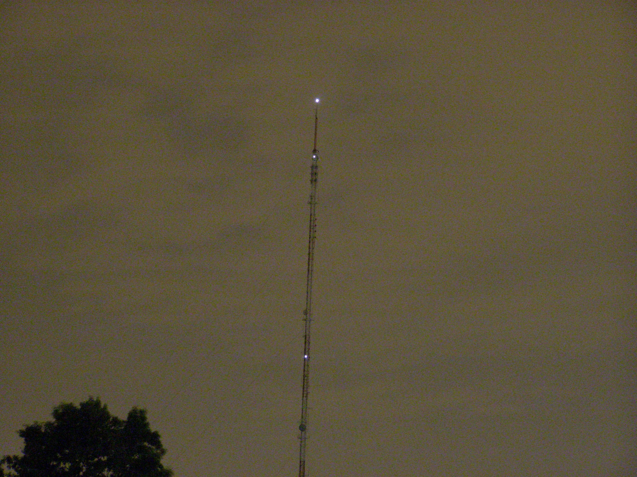 A radio mast/tower for NJN and WKXW at night in Lawrence Township, NJ